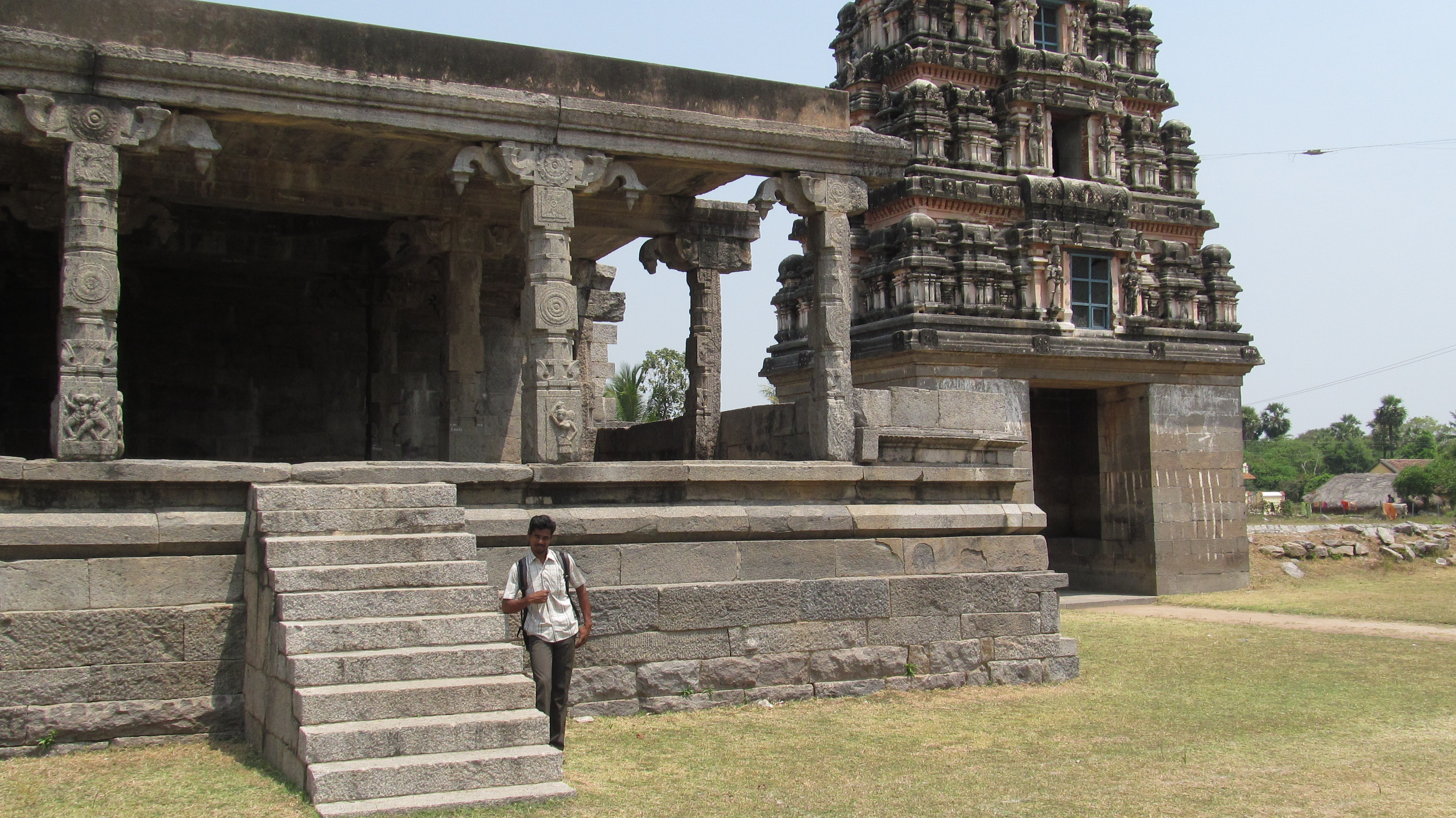 Rock Cut Temple And Sculptures